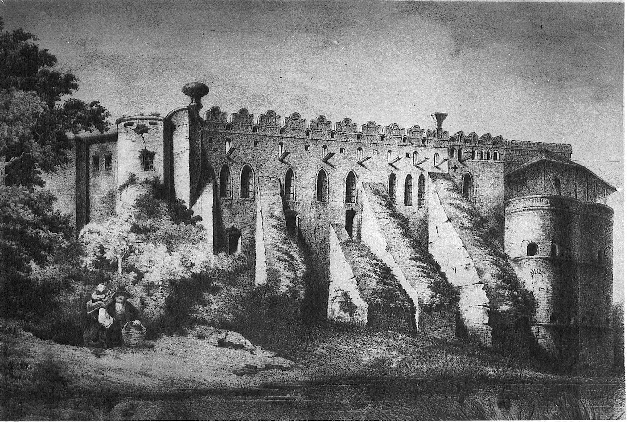 Key words: Medzhybizh, Castle Medzhibozh Castle from a circa 1850 print.